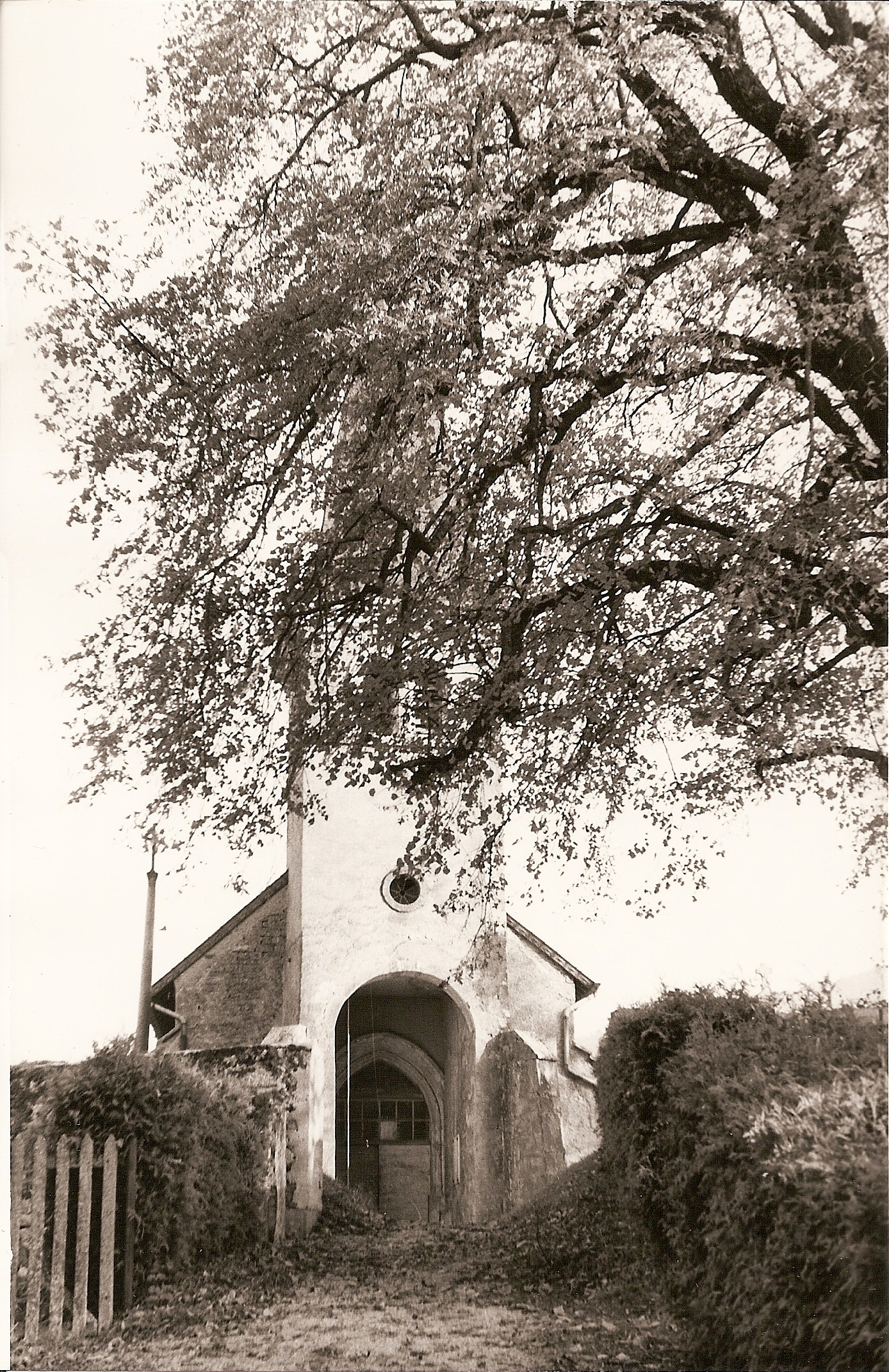 Gizia: Chatel church